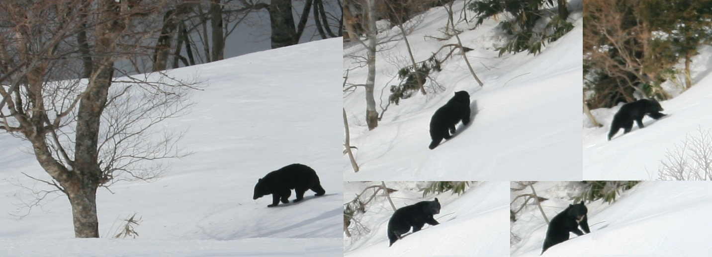 Ursus thibetanus (Asian Black Bear) in Mount Kurai